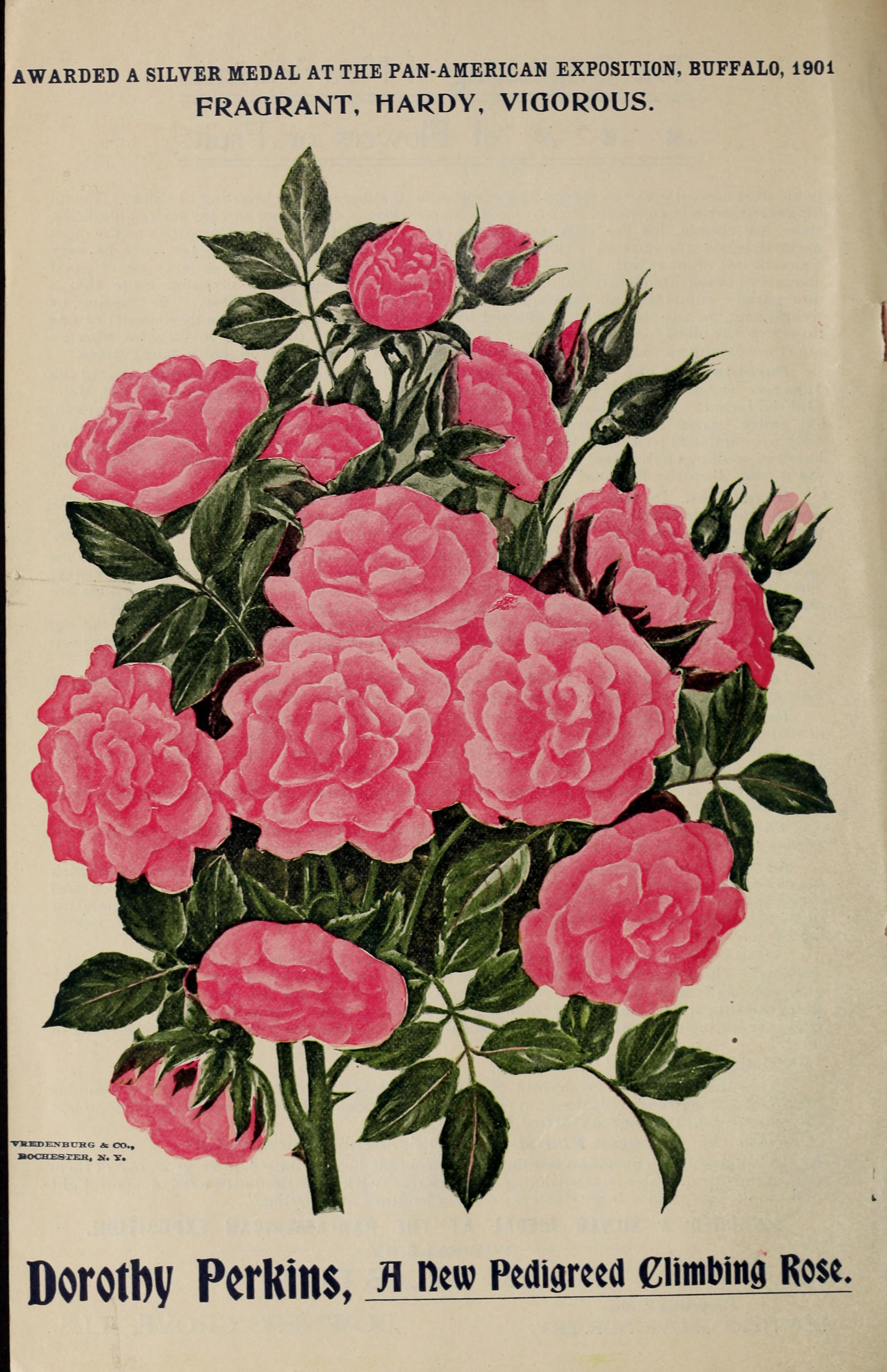 Title: A.B. Austin's catalogue of fruit and ornamental trees, shrubs and plants Year: 1902 (1900s) Authors: Downers Grove Nursery; Austin, A. B; A. B. Austin (Firm); Henry G. Gilbert Nursery and Seed Trade Catalog Collection Subjects: Nursery stock Illinois Downers Grove Catalogs; Nurseries (Horticulture) Illinois Downers Grove Catalogs; Plants, Ornamental Catalogs; Fruit trees Seedlings Catalogs; Fruit Catalogs; Trees Seedlings Catalogs; Shrubs Catalogs Publisher: Downers Grove, Ill. : A. B. Austin Text Appearing Before Image: AWARDED A SILVER MEDAL AT THE PAN-AMERICAN EXPOSITION, BUFFALO, 1901 FRAGRANT, HARDY, VIGOROUS. Text Appearing After Image: Dorothy Perkins, B new pedigreed £\mm Rose